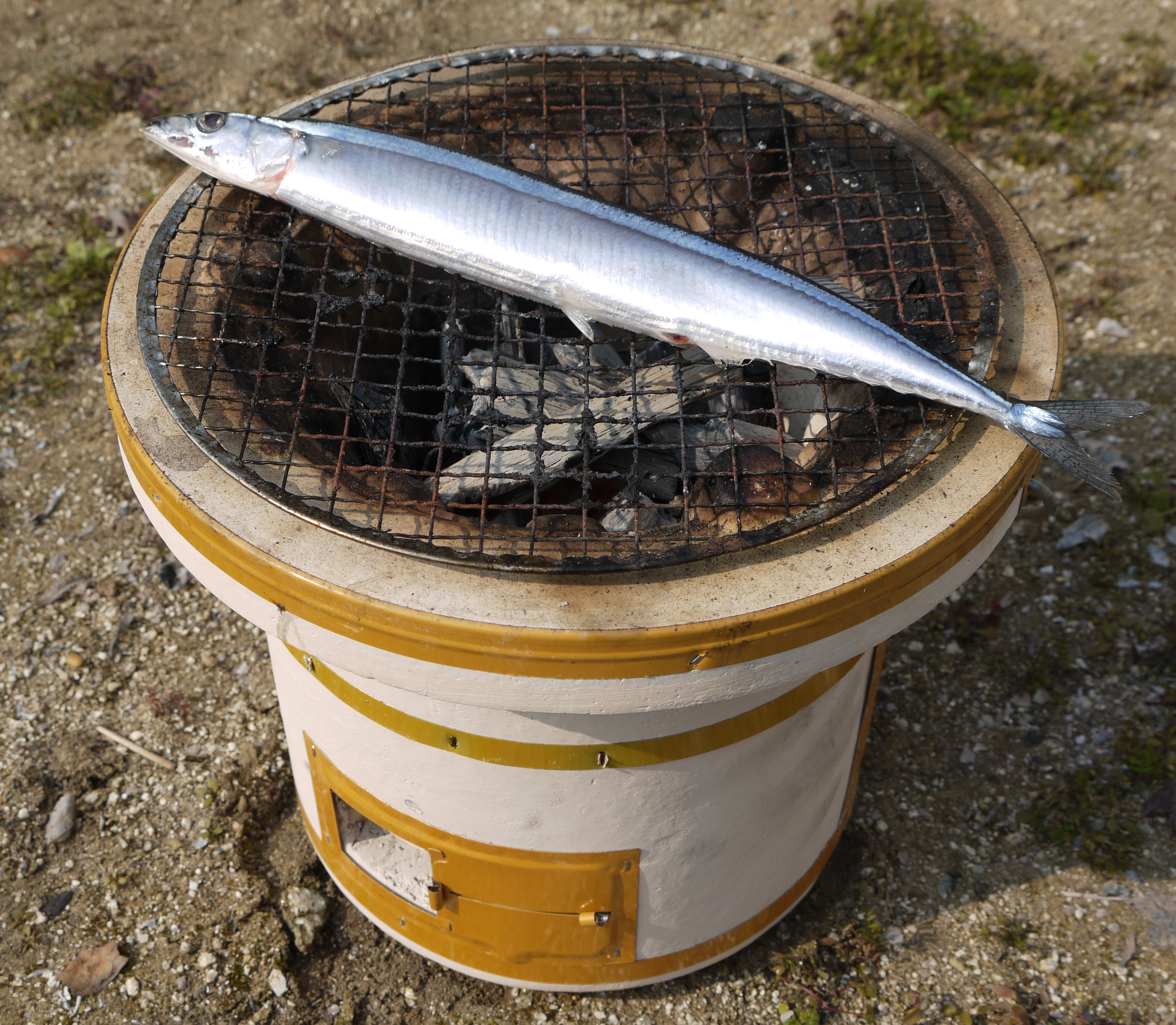 ShichirinSanma Japan